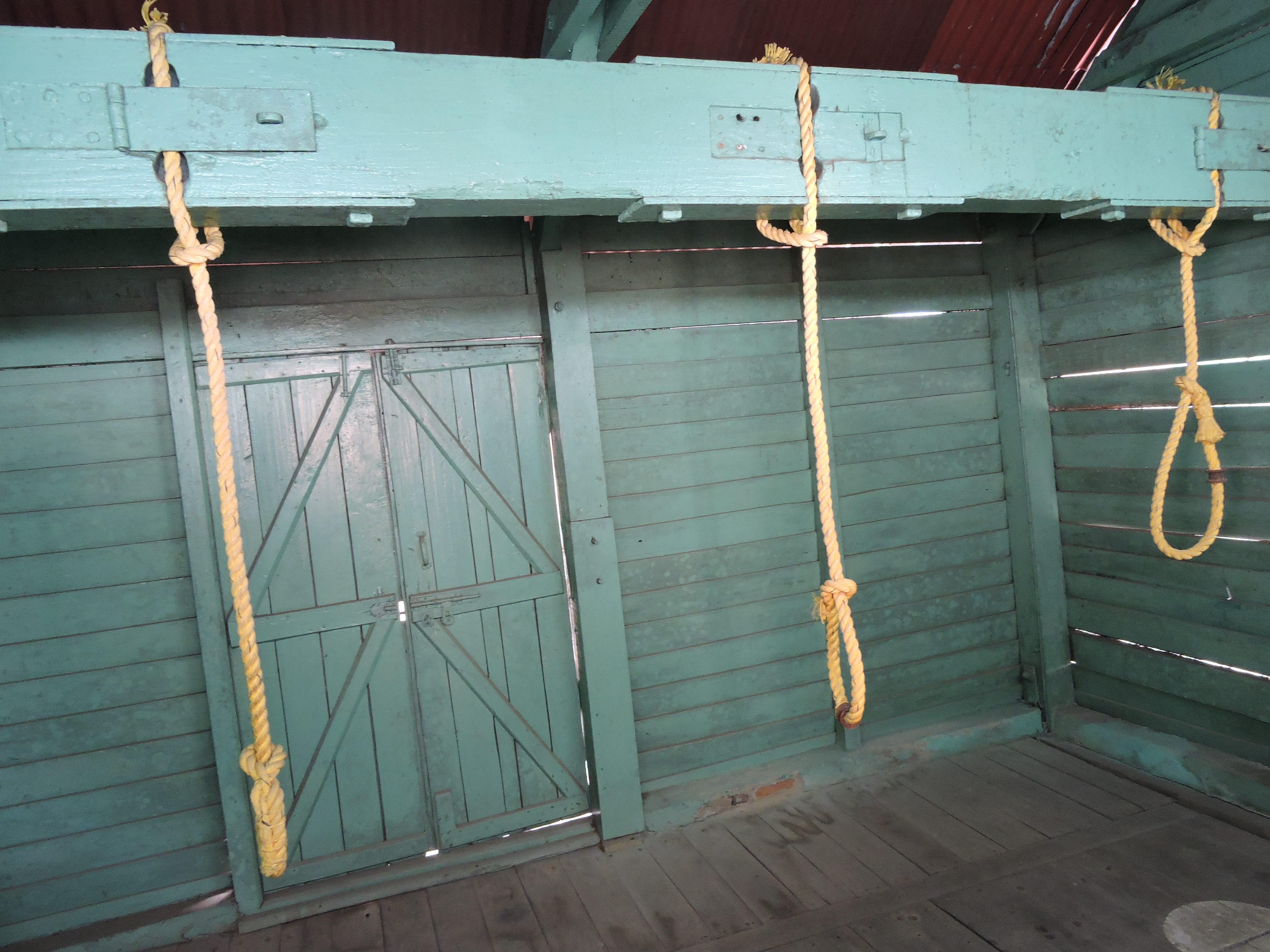 Cellular jail's cell where three prisoners were hanged to death at one time